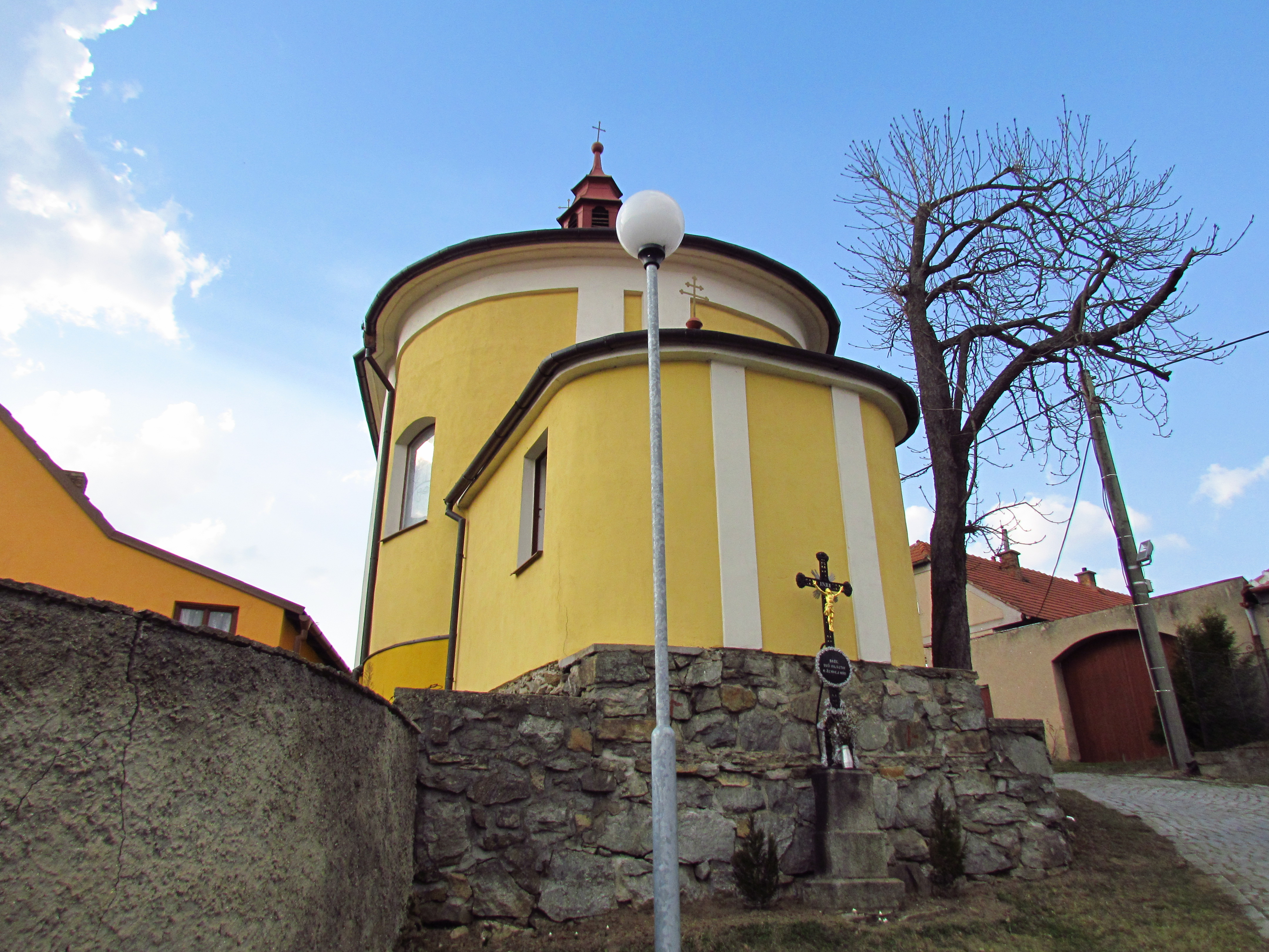 Back view of Chapel of Saints Cyril and Methodius in Chlístov, Třebíč District.